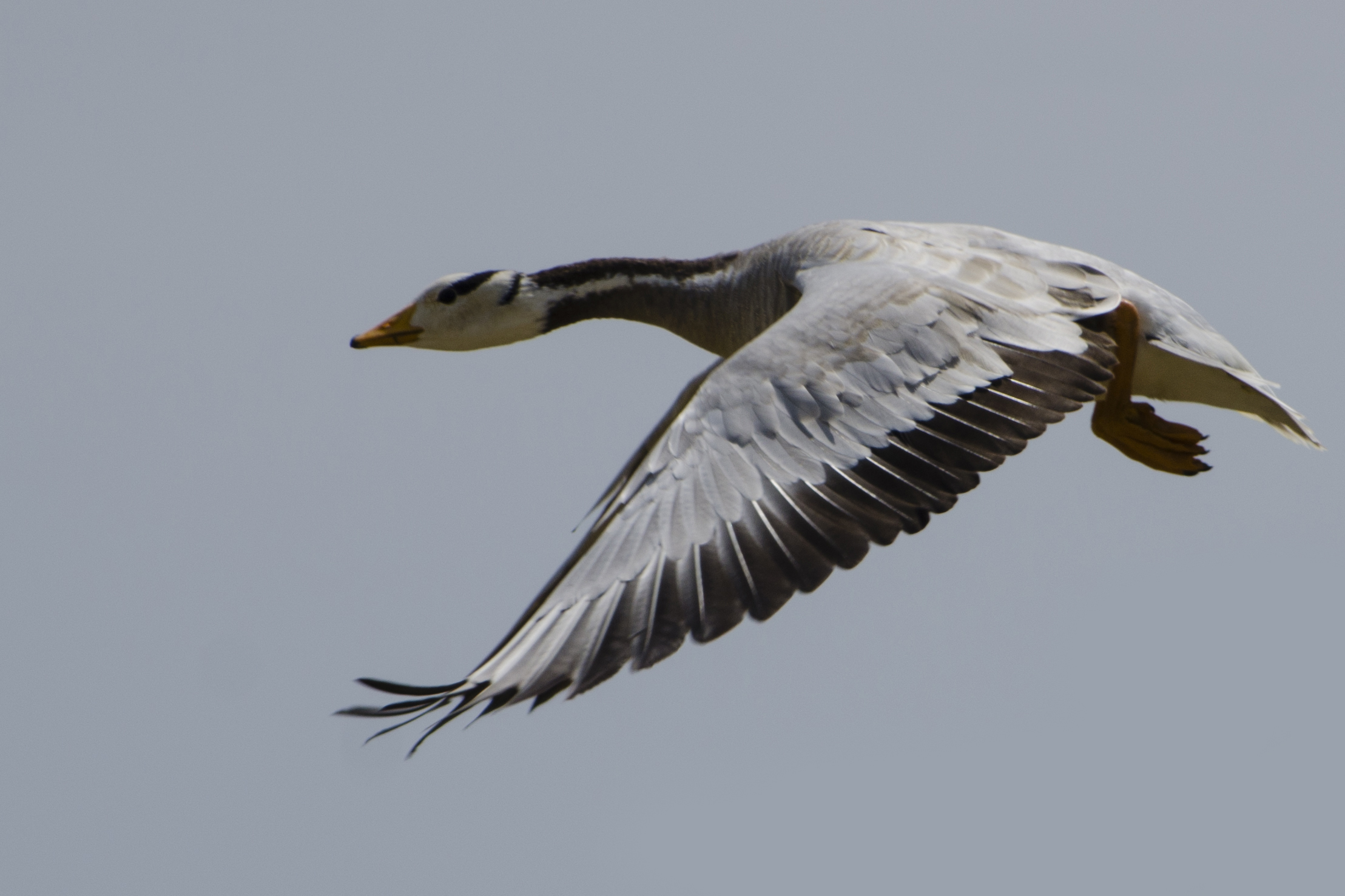 Bar-headed Goose in Koonthalulam, India, by Dr. Tejinder Singh Rawal